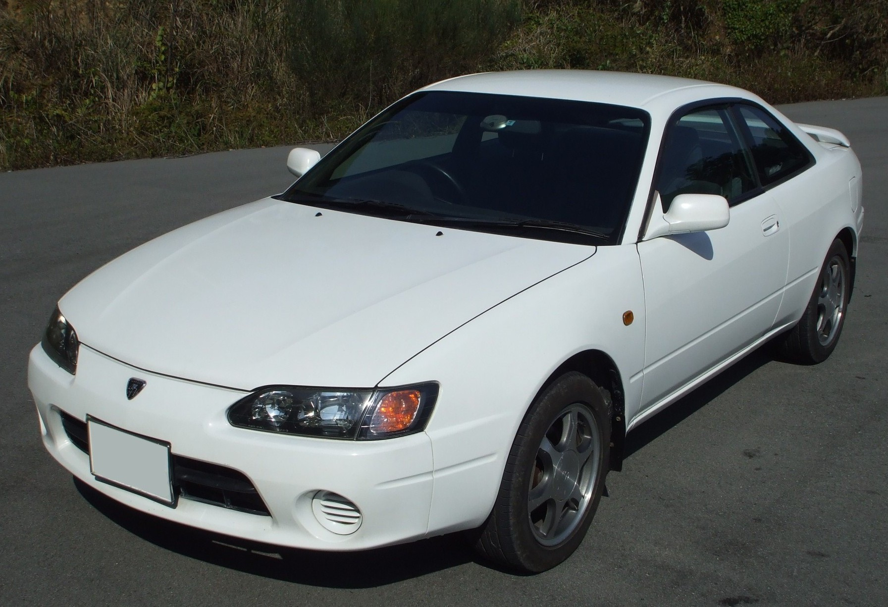 Toyota Sprinter Trueno XZ(GF-AE111)